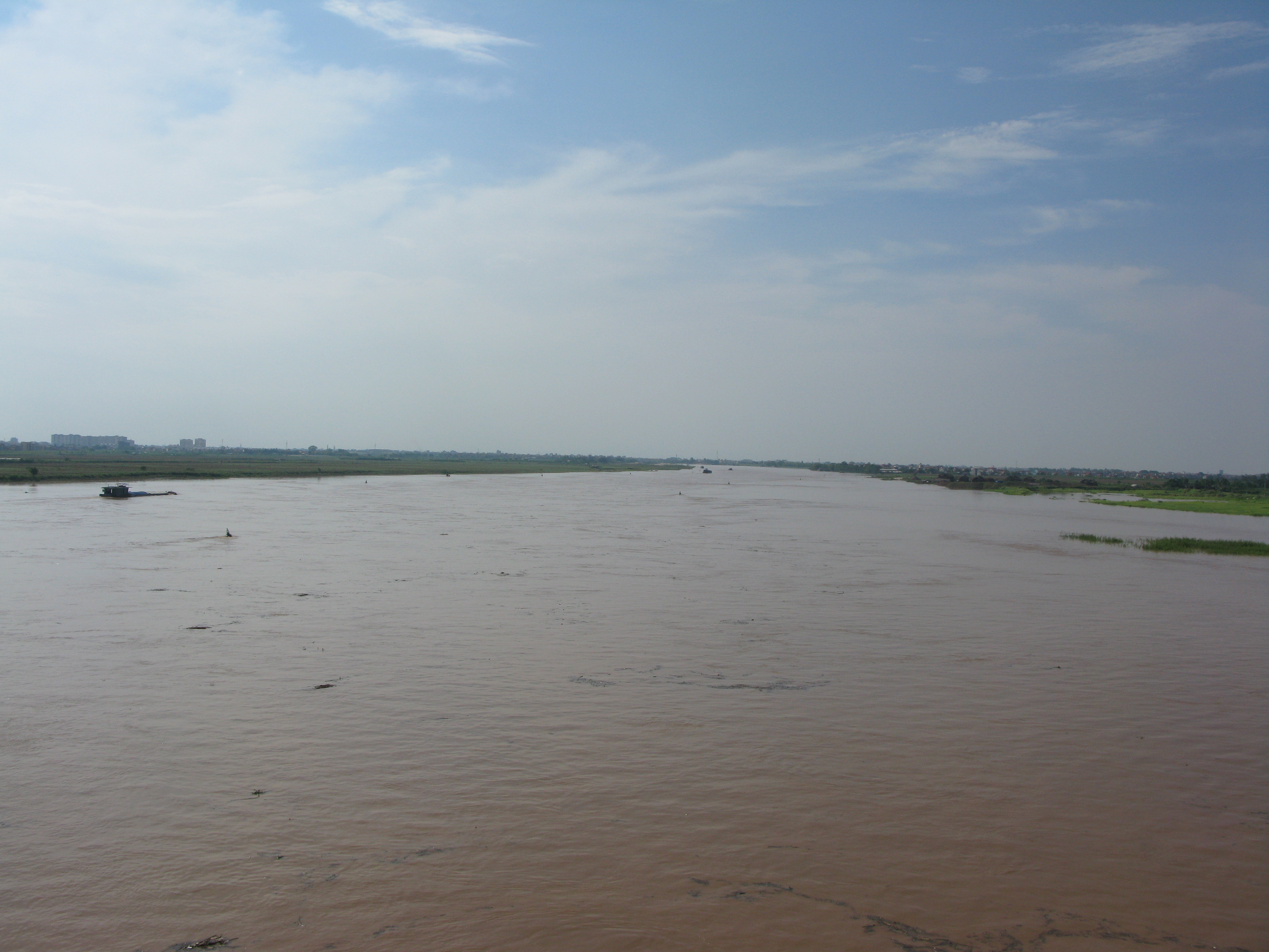 Duong River seen from Phu Dong Bridge, Ha Noi, Viet Nam.